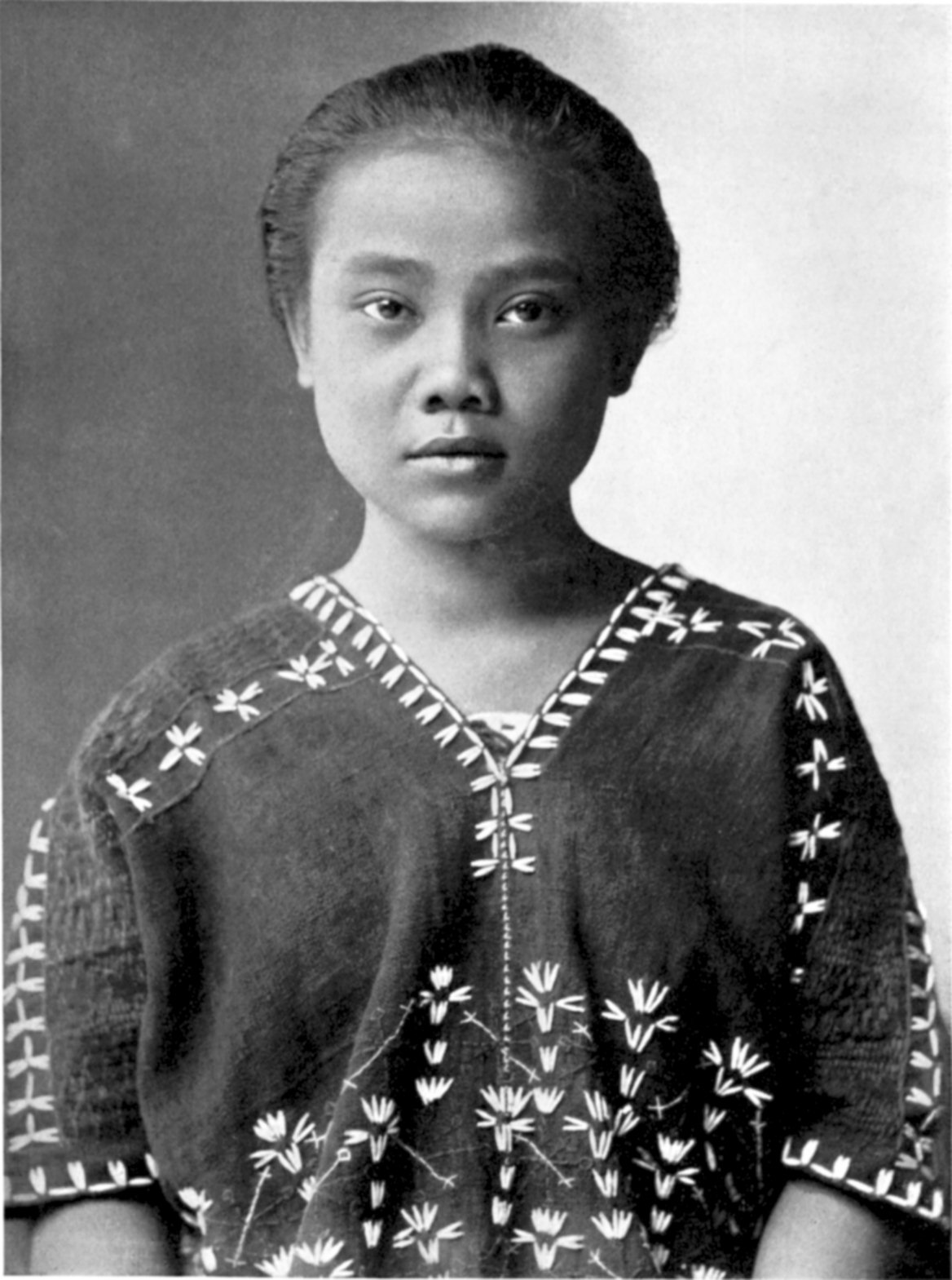 A Karen woman. The Karens of Siam are purely spirit-worshippers, whose ritual takes the form of sacrifice, with its attendant feasting and heavy drinking of strong rice-spirit. The art of divination is much practised by them, principally by means of the inspection of the bones of slaughtered fowls. The women decorate their costumes with embroidery of grass seeds, wear silver rings in their ears, and after marriage a blue cloth on the head.